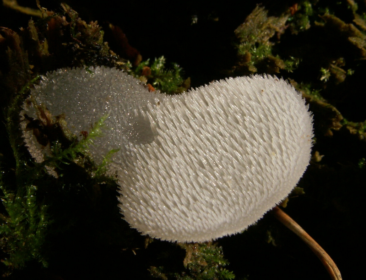 Pseudohydnum_gelatinosum, Lithuania, stub of Picea abies